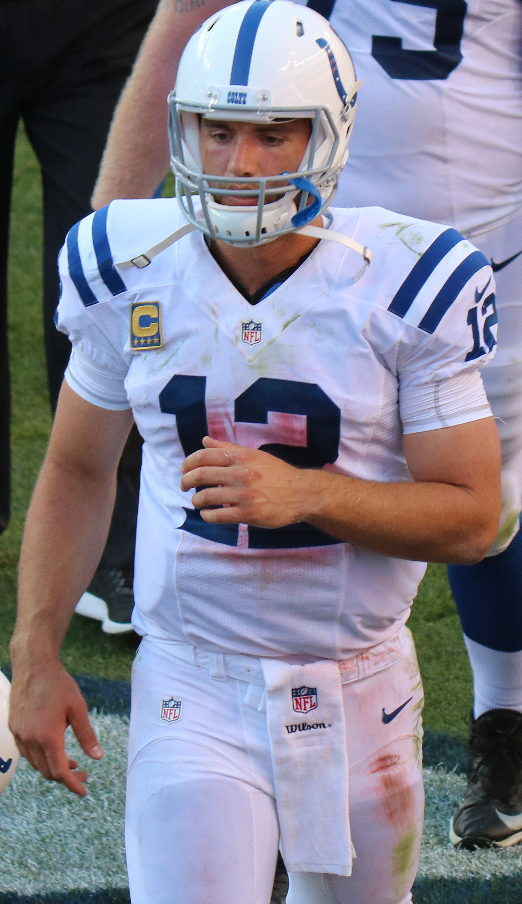 Andrew Luck, a player on the National Football League.